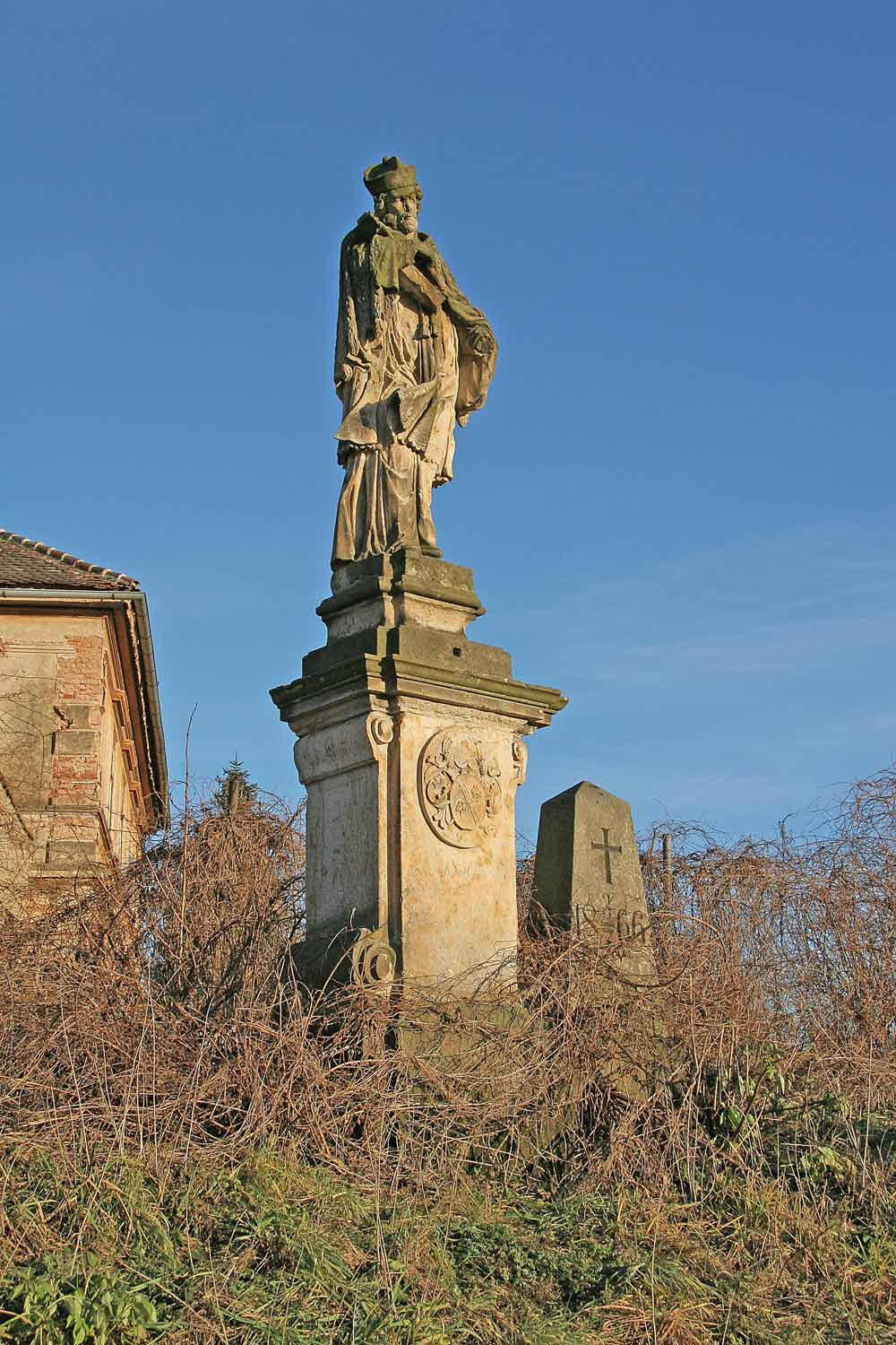 Baroque statue of St John Nepomucene and Battle of Königgrätz memorial obelisk (number 253) in Kunčice, Hradec Králové District, Czech Republic